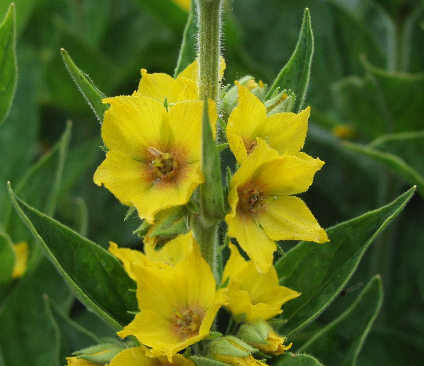 Lysimachia punctata from a garden in Nettersheim, Germany.